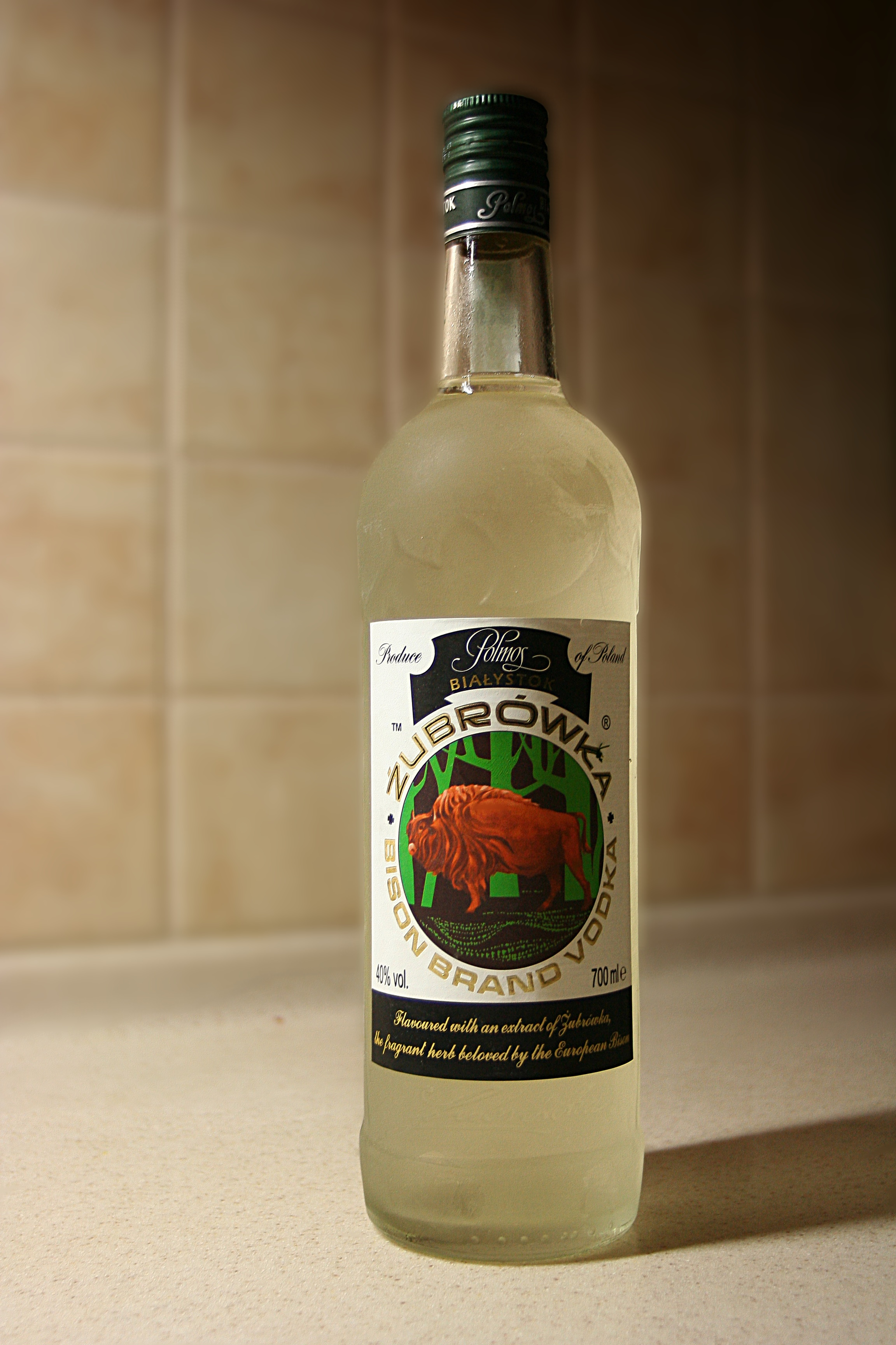 Żubrówka vodka frozen - Polish Bison Vodka